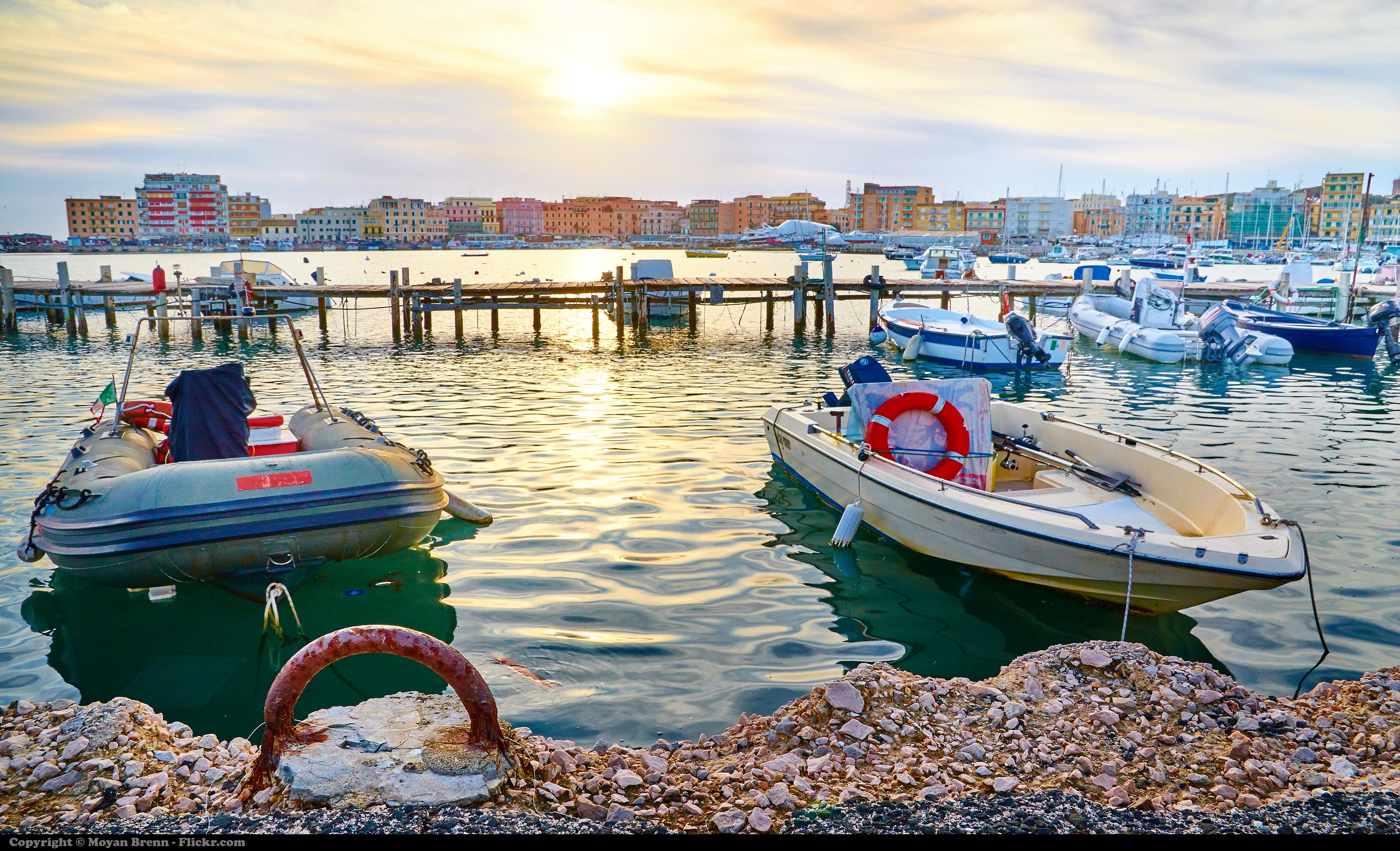 the harbour of Anzio with some boats in the afternoon